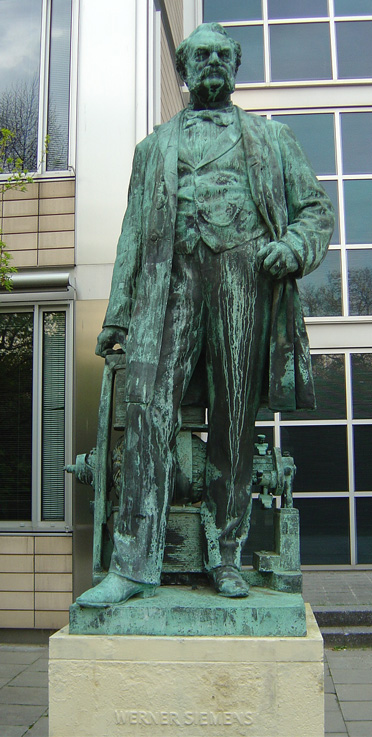 Statue of Werner von Siemens, inventor and founder of Siemens AG, located at TU Berlin